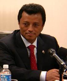 Marc Ravalomanana, President of Madagascar at Washington Foreign Press Center Briefing on "The Signing of the First Millennium Challenge Compact"